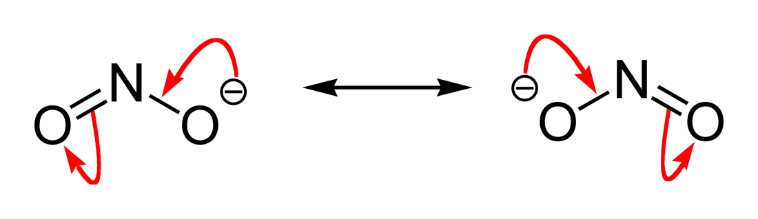 Canonical structures describing resonance in the nitrite ion, NO2−.